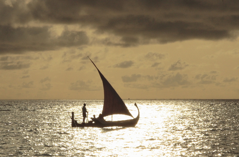 Dhoni on the Maldives, used for tourist transport. Picture taken July 2006, Lankan Fushi, (c)